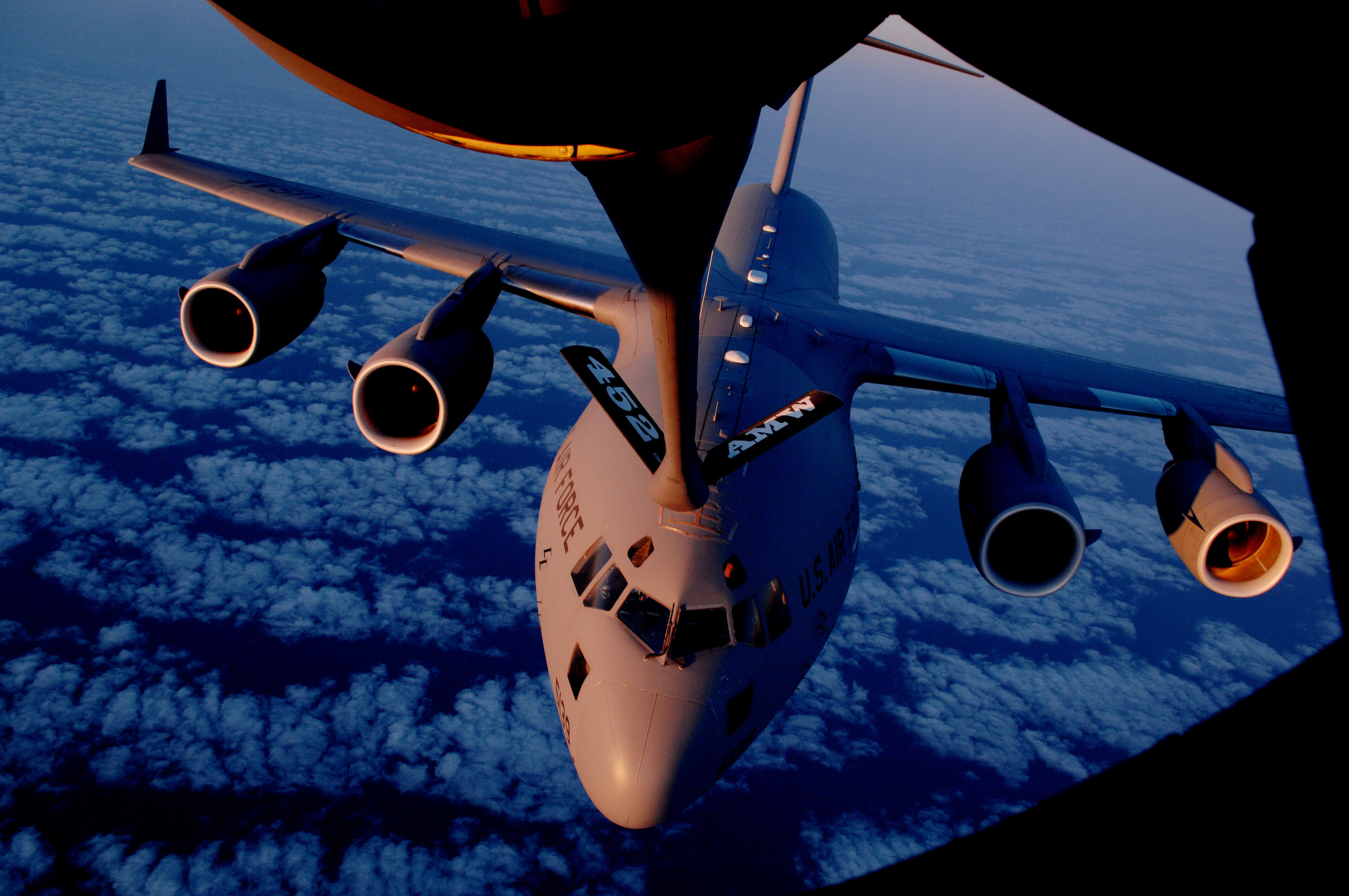 A C-17A Globemaster III aircraft from the 729th Airlift Squadron approaches a KC-135R Stratotanker aircraft from the 336th Air Refueling Squadron during an aerial refueling training mission over the Pacific Ocean on May 20, 2009. The aircraft are attached to the 452nd Air Mobility Wing out of March Air Reserve Base, Calif.